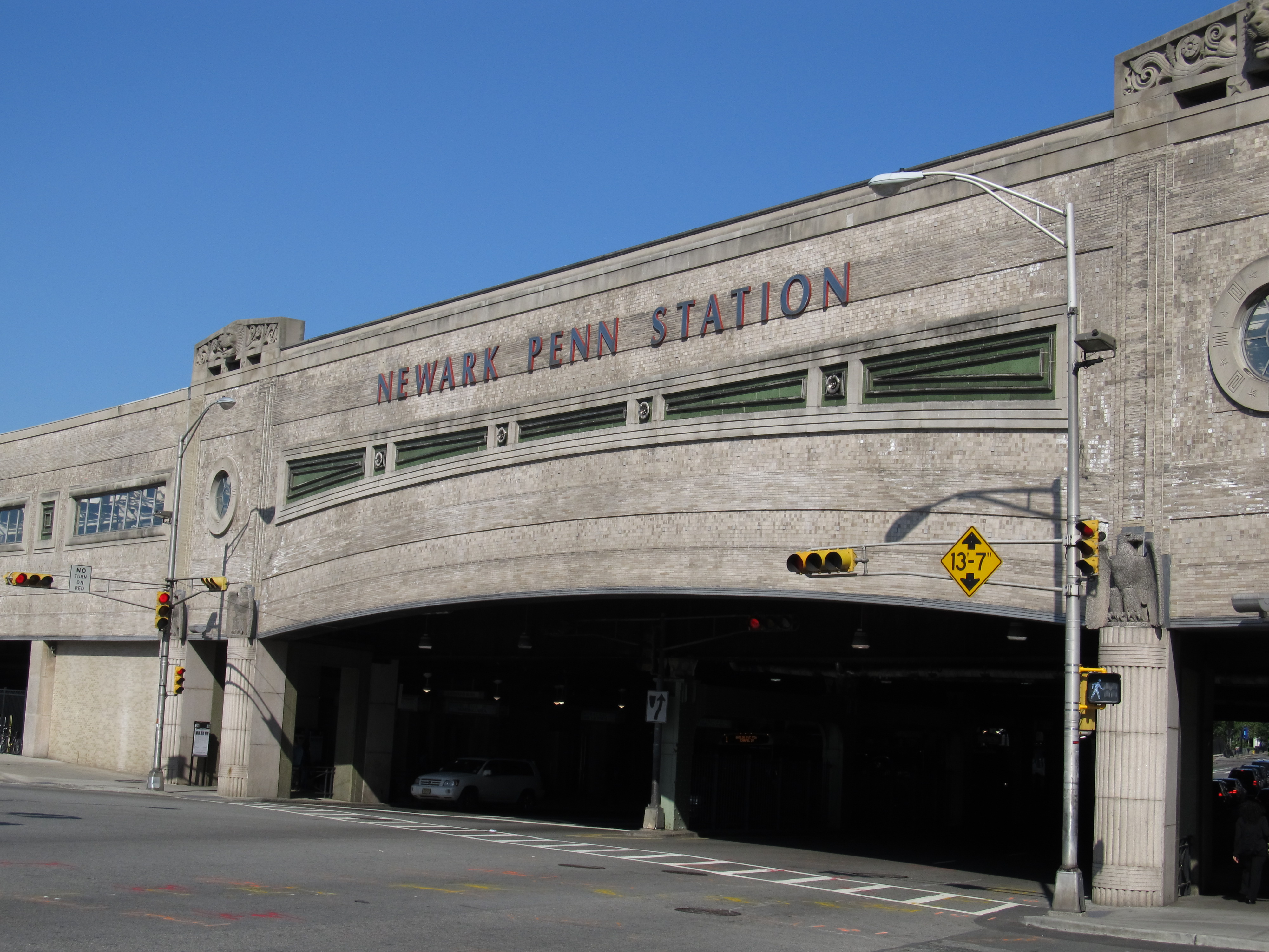 Pennsylvania Station (also known as Newark Penn Station) is a major transportation hub in Newark, New Jersey. Located at Raymond Plaza, between Market Street and Raymond Boulevard, Newark Penn Station is served by the Newark Light Rail, New Jersey Transit commuter rail, Amtrak long distance trains, the PATH rapid transit system, and local, regional and national bus services (NJ Transit, Greyhound, and other private operators).